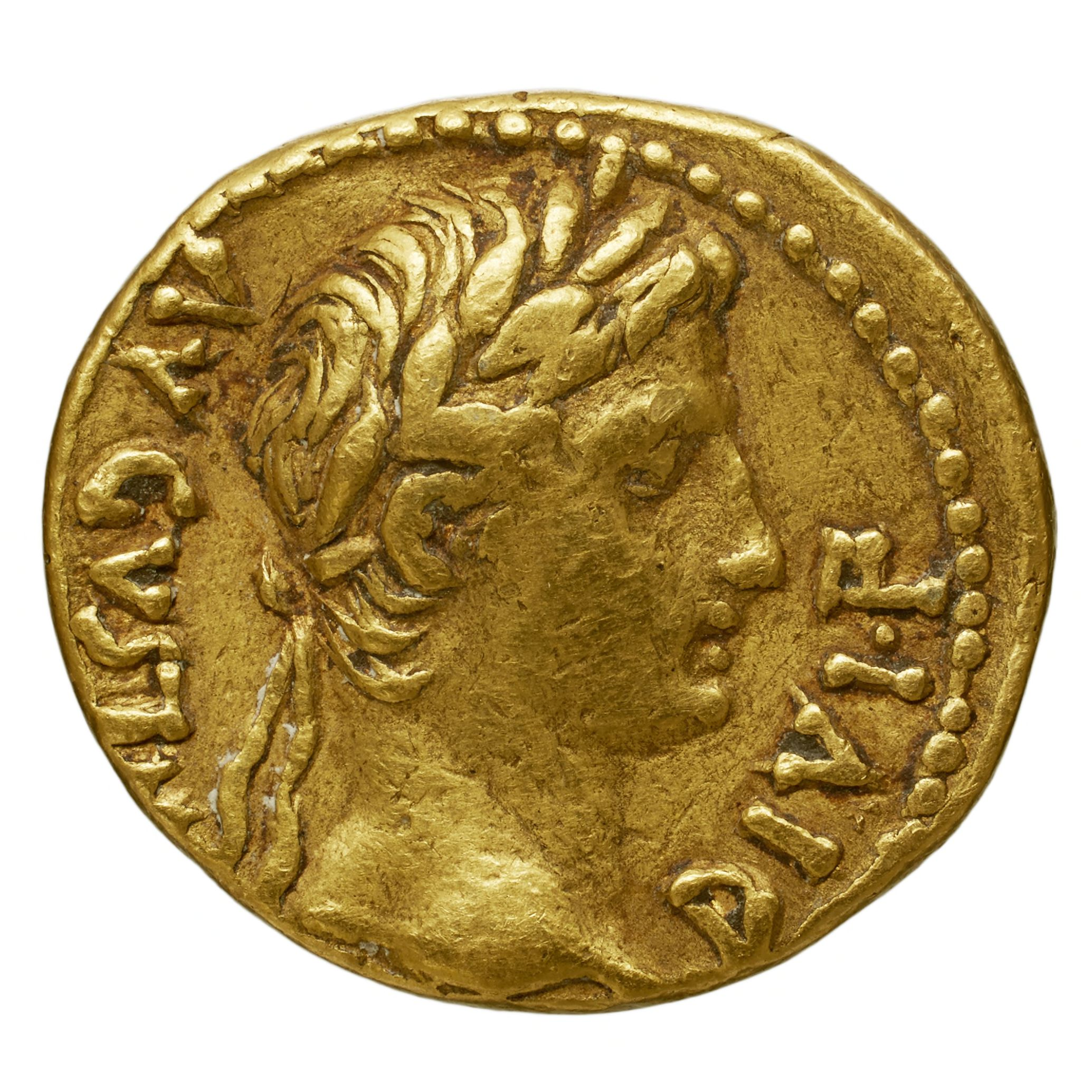 Gold coin, Aureus, Auguste, Lyon. 7.90 g, obverse.